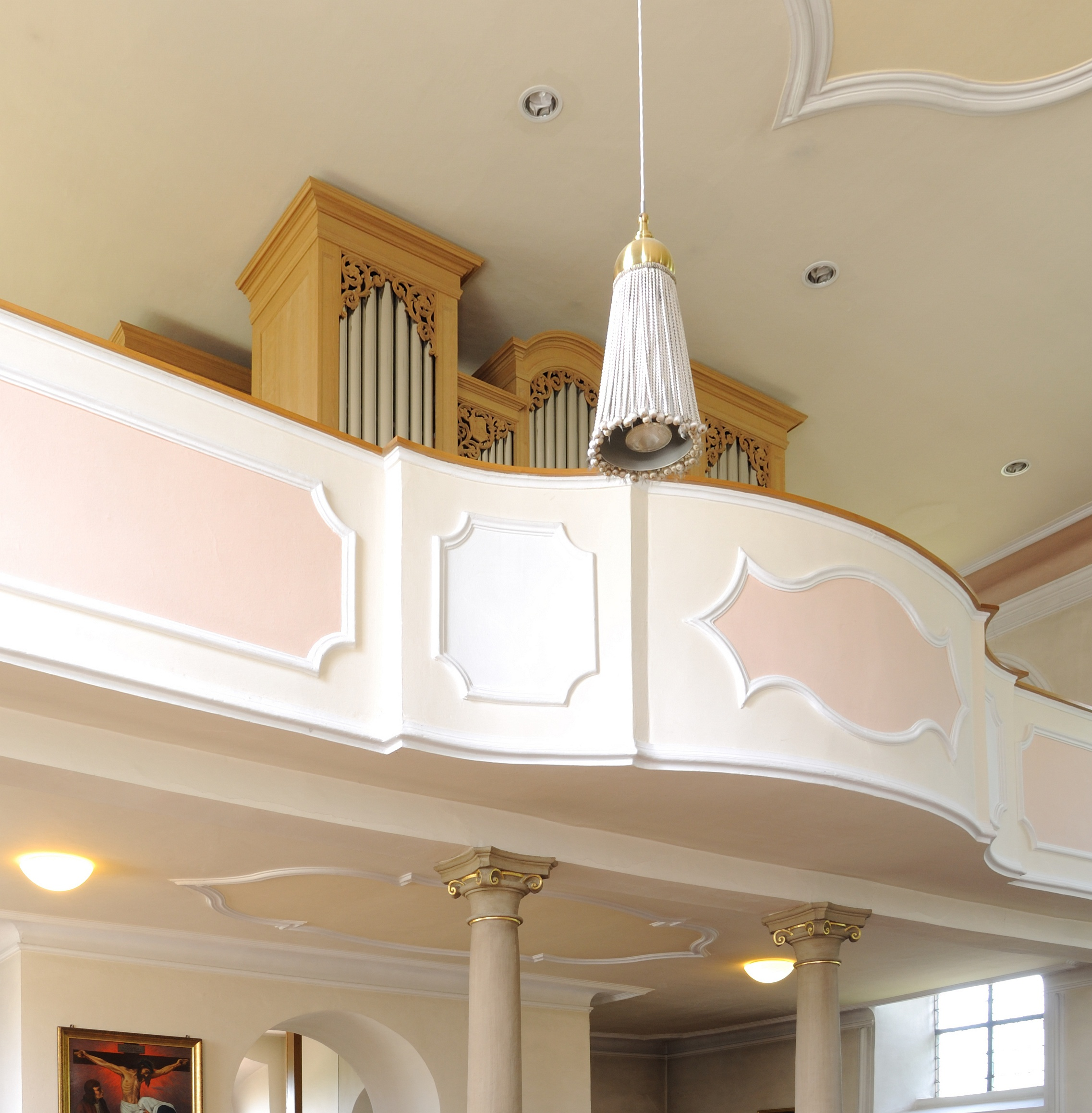 Bad Bellingen: Saint Leodegar Church